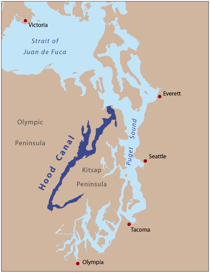 This is a locator map of Hood Canal. I, Pfly, made it with ArcGIS, Adobe Illustrator, and Adobe Photoshop. Used screenshot method to see how colors differ from direct save from Illustrator.